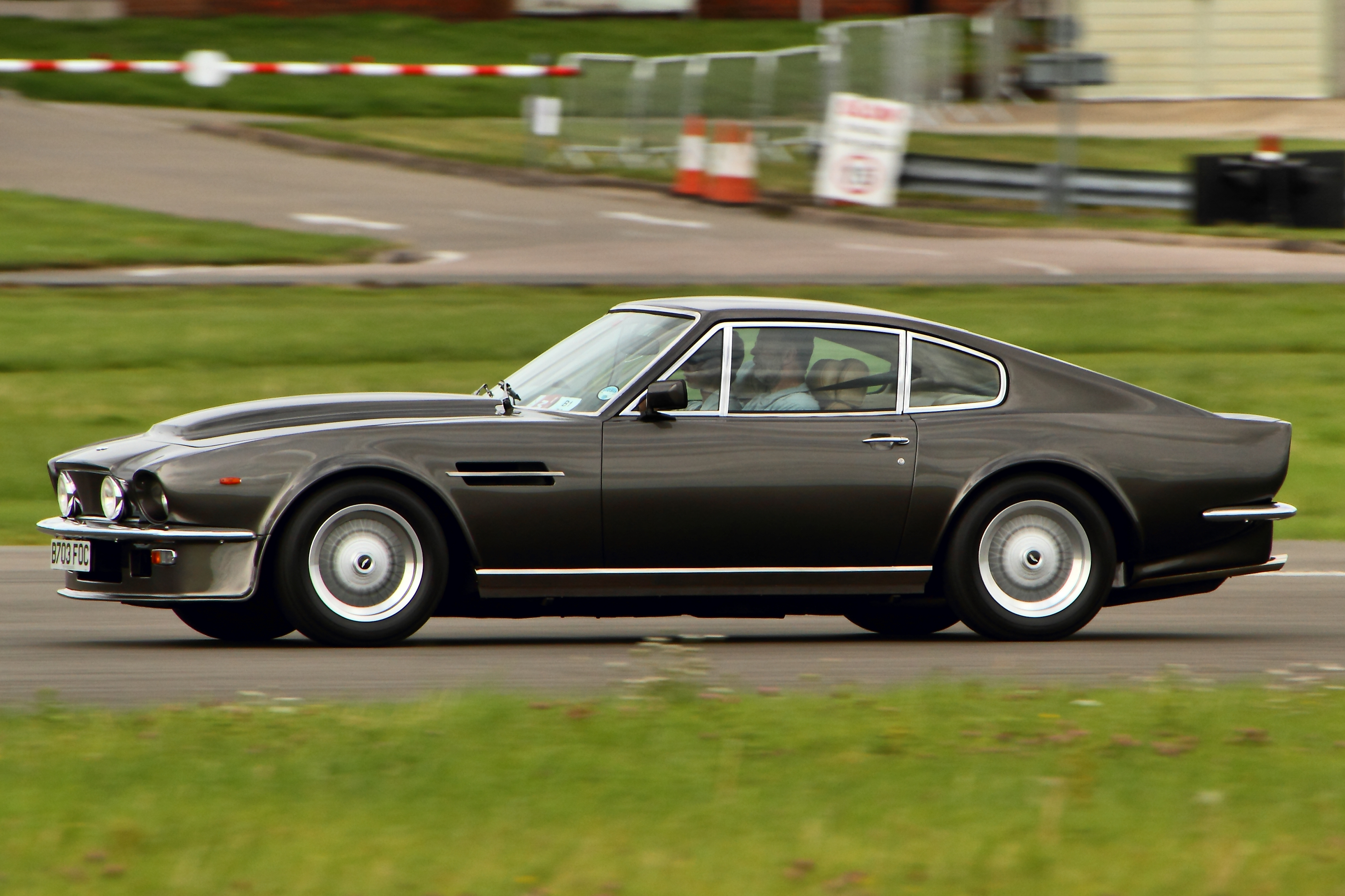 Dunsfold Wings and Wheels 2014 Cars and Bikes